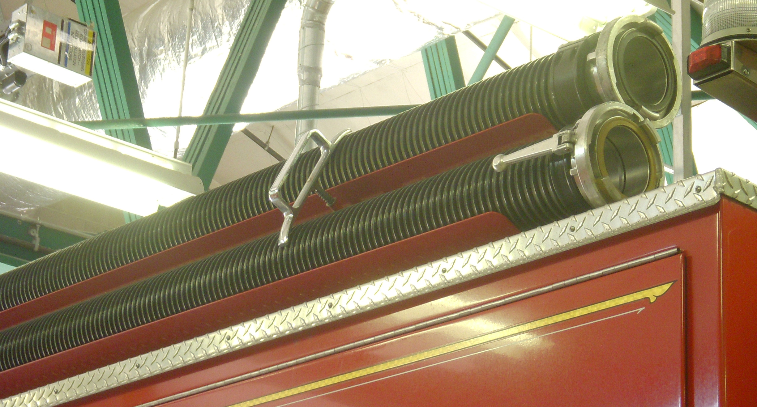 2, 10 foot lengths of 5" hard suction hose with Storz fittings, mounted on fire engine.